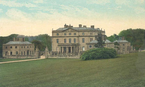 Tehidy House, Illogan, near Camborne, Cornwall, depicted circa 1900. Collection of Cornish Studies Library, Cornwall Centre, Redruth.